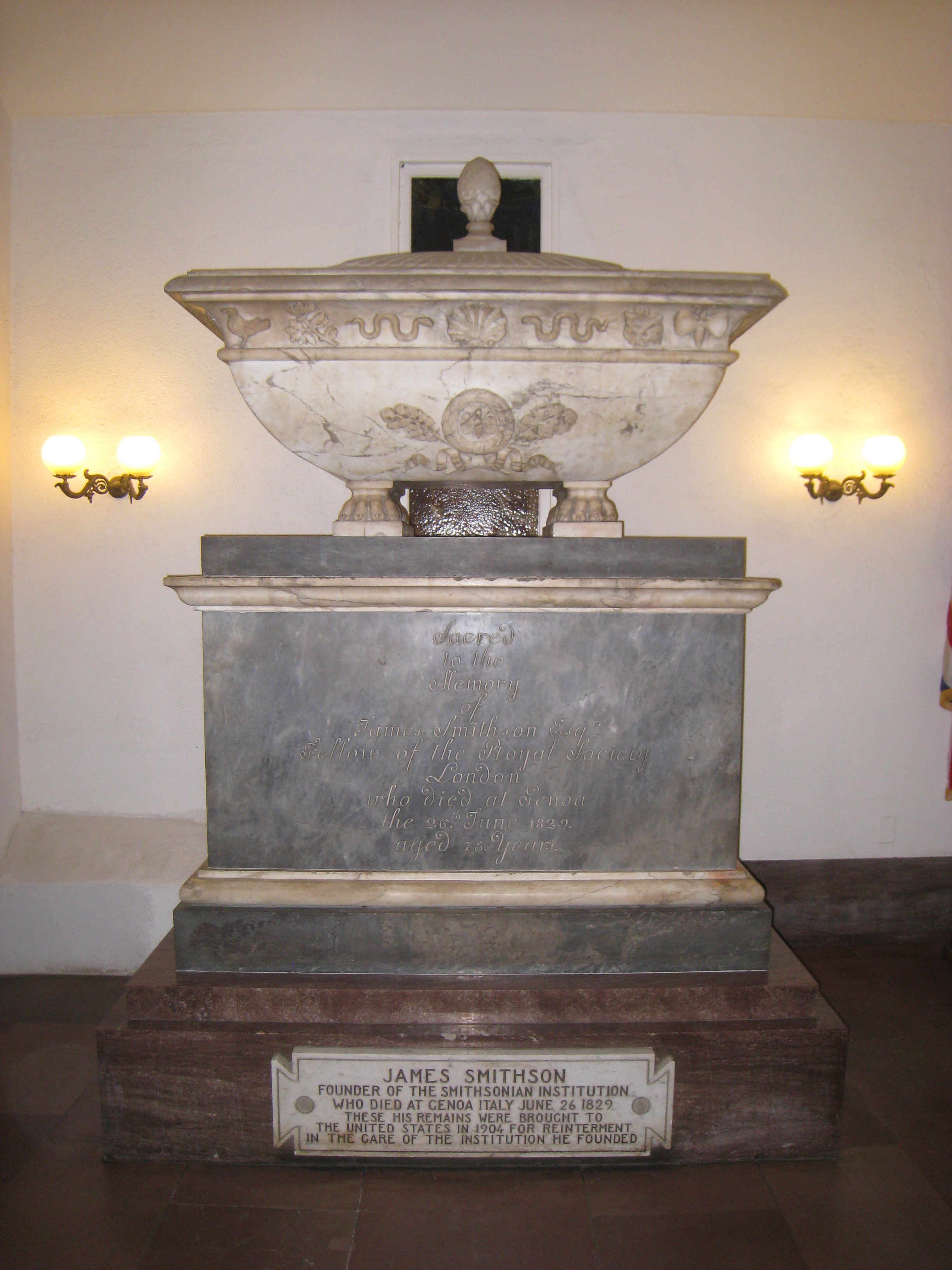 James Smithson's remains in the Smithsonian Institution Building (The Castle), Washington, DC, USA.